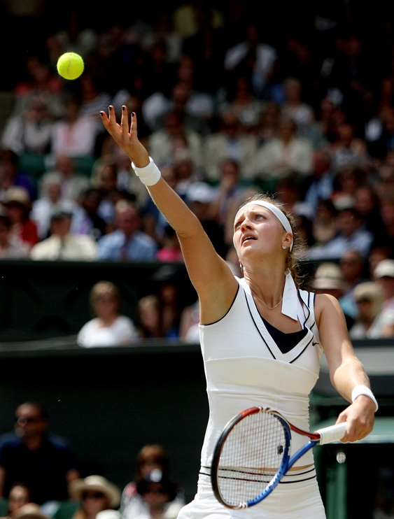 Czech tennis player Petra Kvitova in the final match at the 2011 Wimbledon against Maria Sharapova